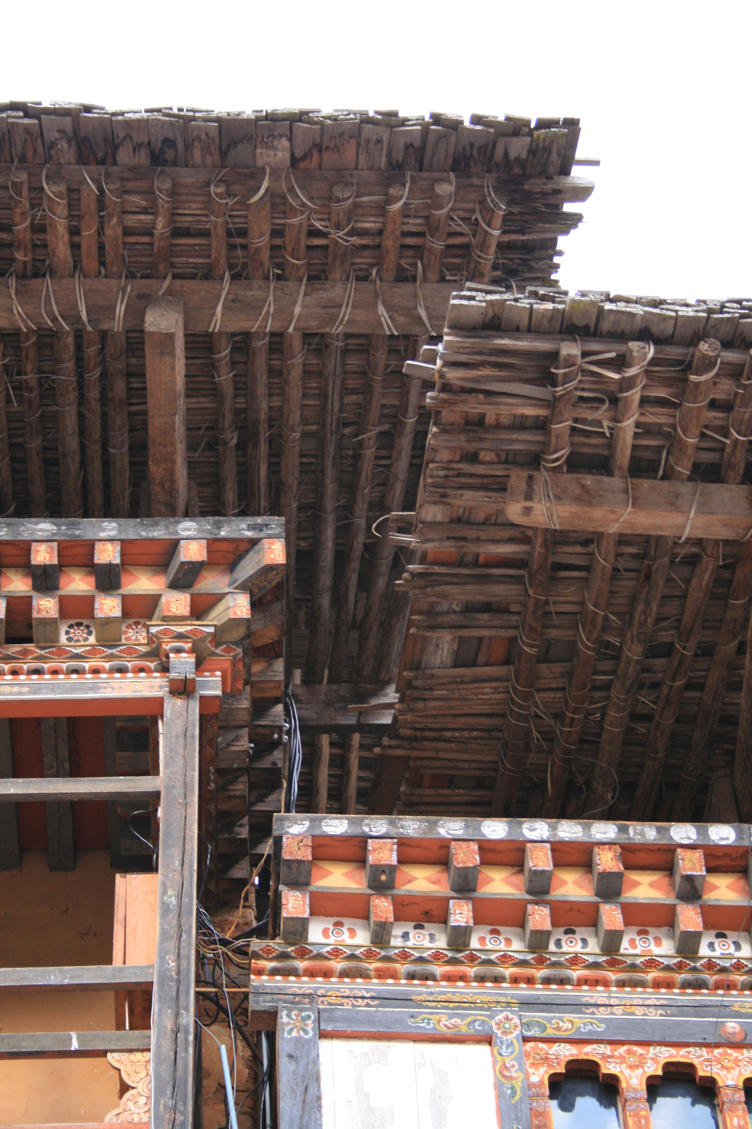 Eaves with colorful brackets, and rafters system above — of Trongsa Dzong, in Bhutan. Traditional Bhutanese Buddhist architectural elements and details in roof construction.